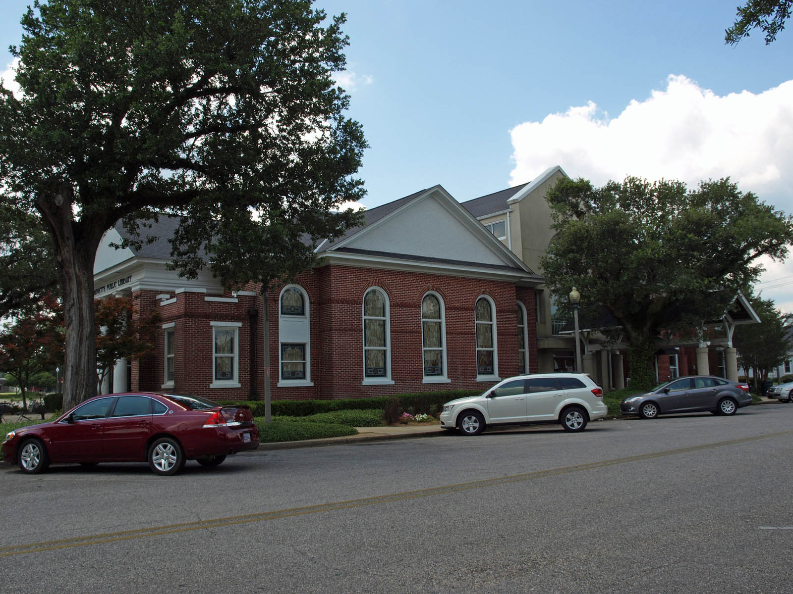 The old First Baptist Church in Bay Minette, Alabama, listed on the National Register of Historic Places